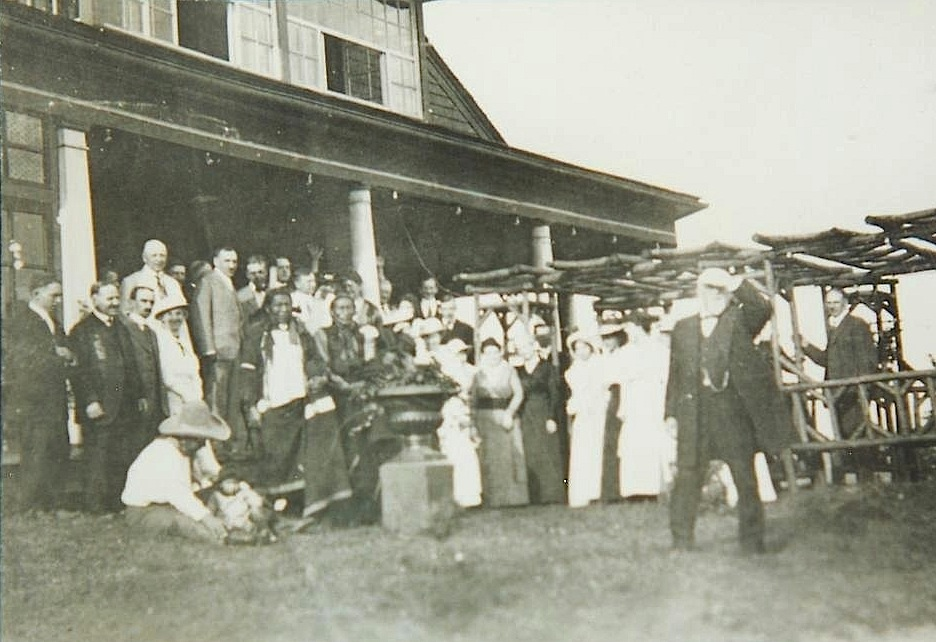 Grand Reception for Chief Iron Tail and Chief Flying Hawk, The Wigwam, Du Bois, PA, 1915. Other information No.